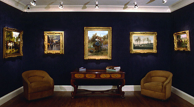 Interior view of the center gallery